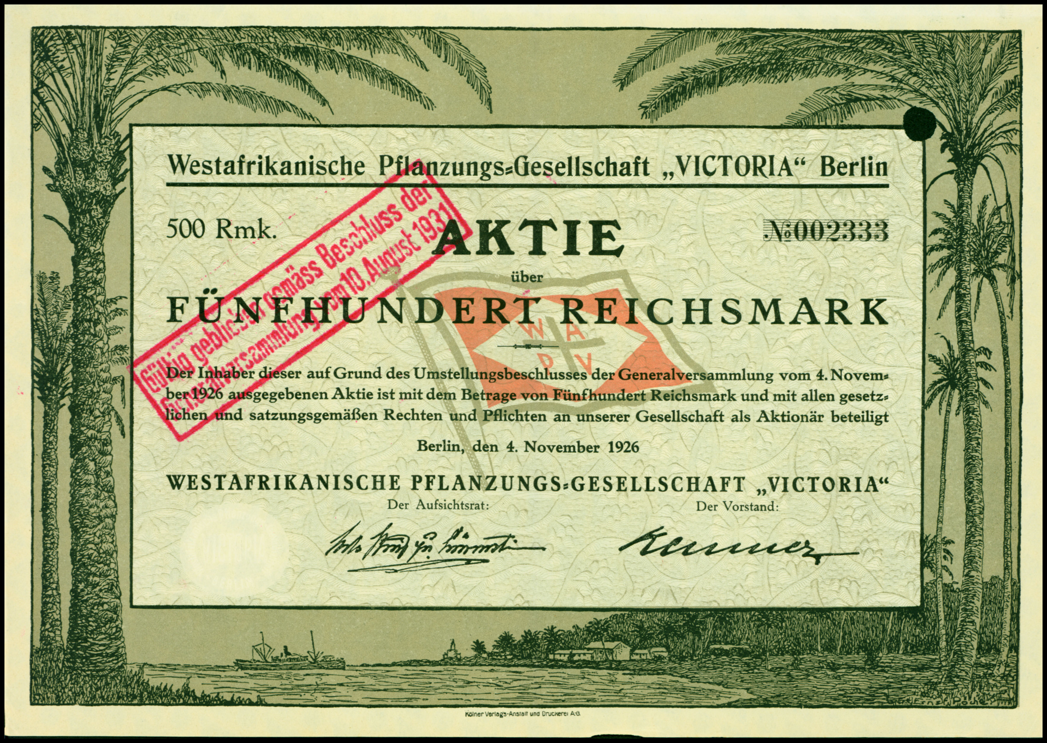 Share of the Westafrikanische Pflanzungs-Gesellschaft Victoria, issued 4. November 1926